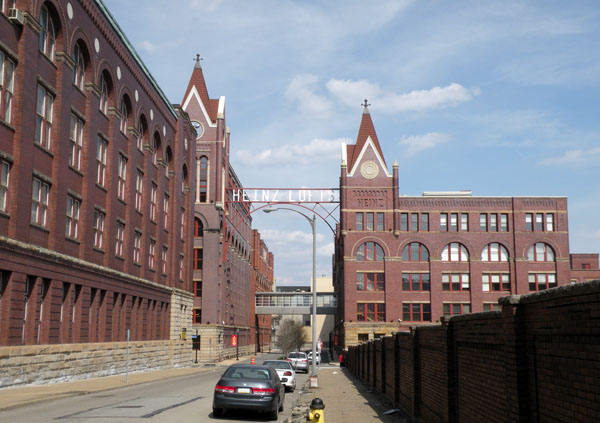 Picture of Heinz Lofts located at 300 Heinz Street in the Troy Hill neighborhood of Pittsburgh, Pennsylvania, on March 20, 2010. Built from 1913 to 1927. Architects: H. J. Heinz Company, R. M. Trimble, and Albert Kahn. Architectural style: Romanesque Revival, Beaux-Arts.